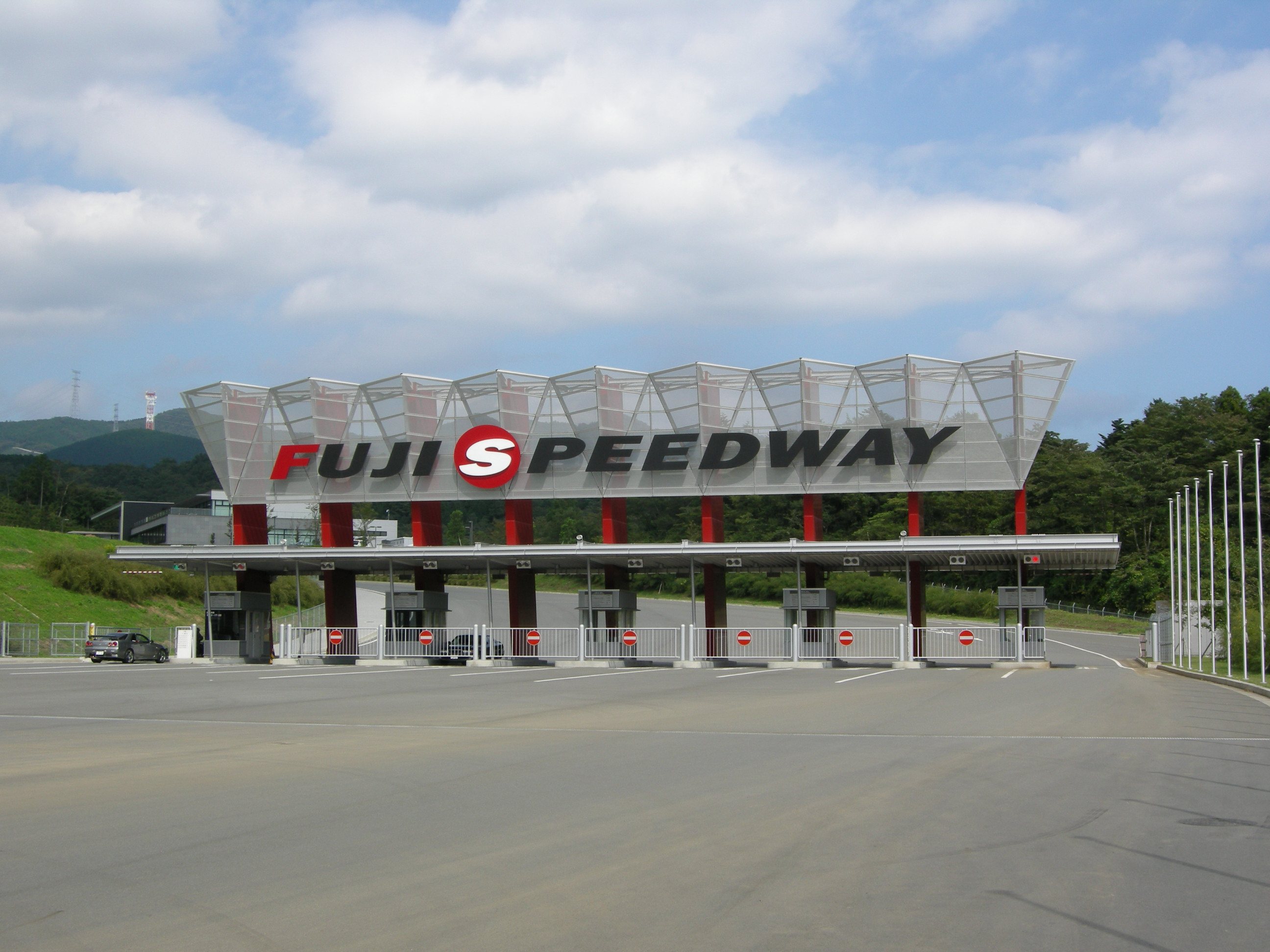 fuji speedway eastgate